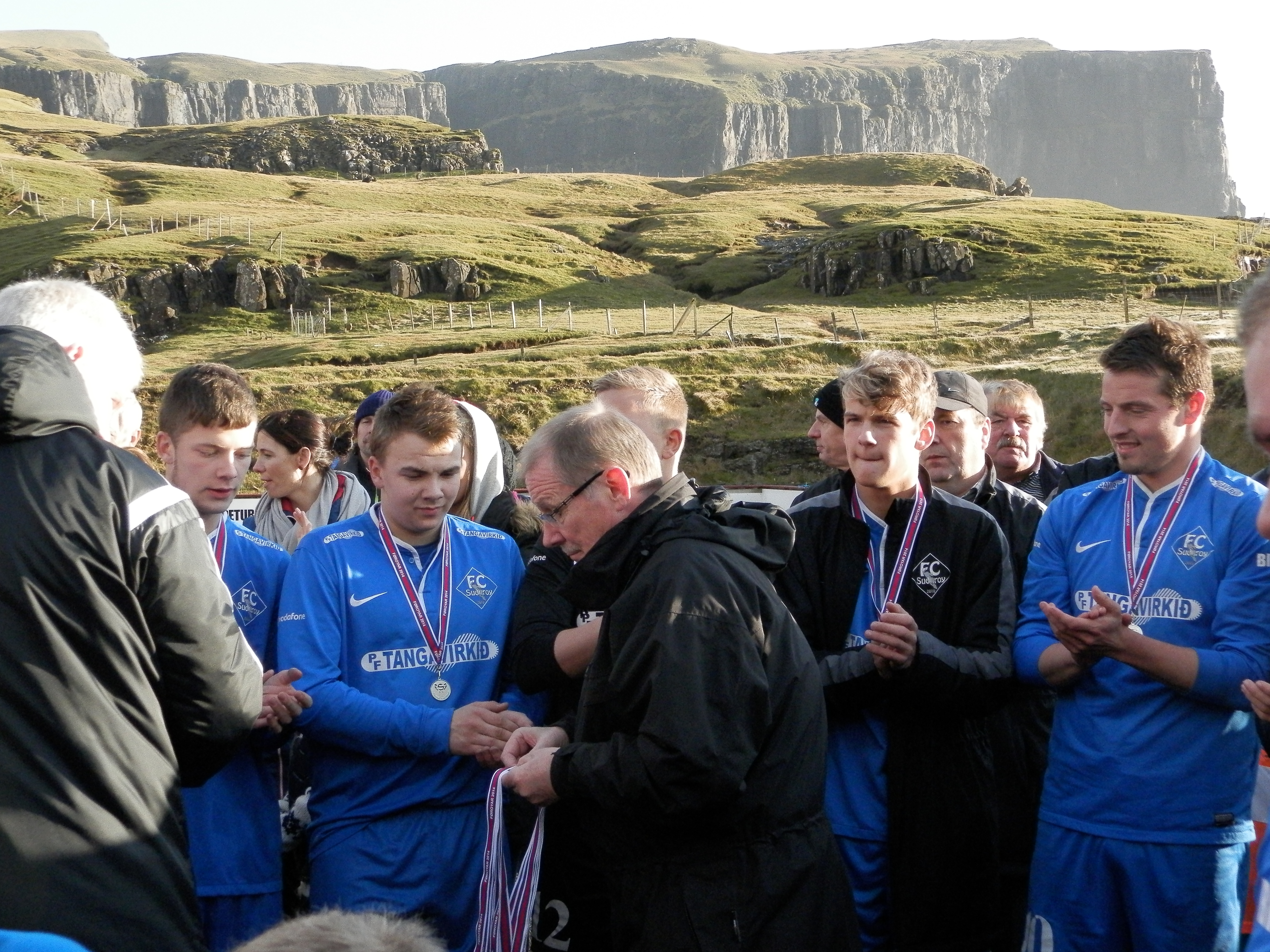 FC Suðuroy receives their silver medals after the last match of the 2014 season in the Faroese first division.